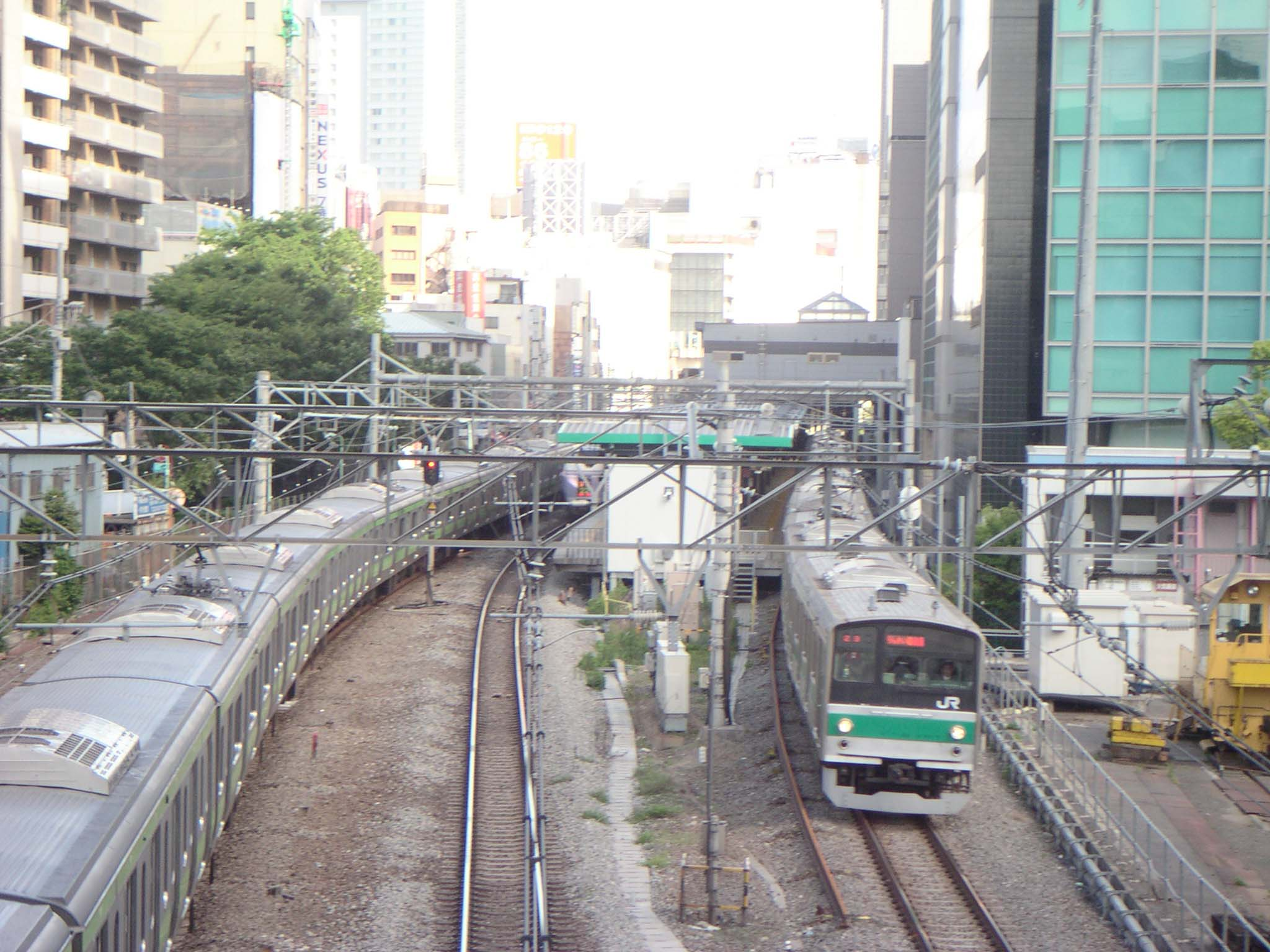 Shibuya Station. Saikyo Line (R) and Yamanote Line.